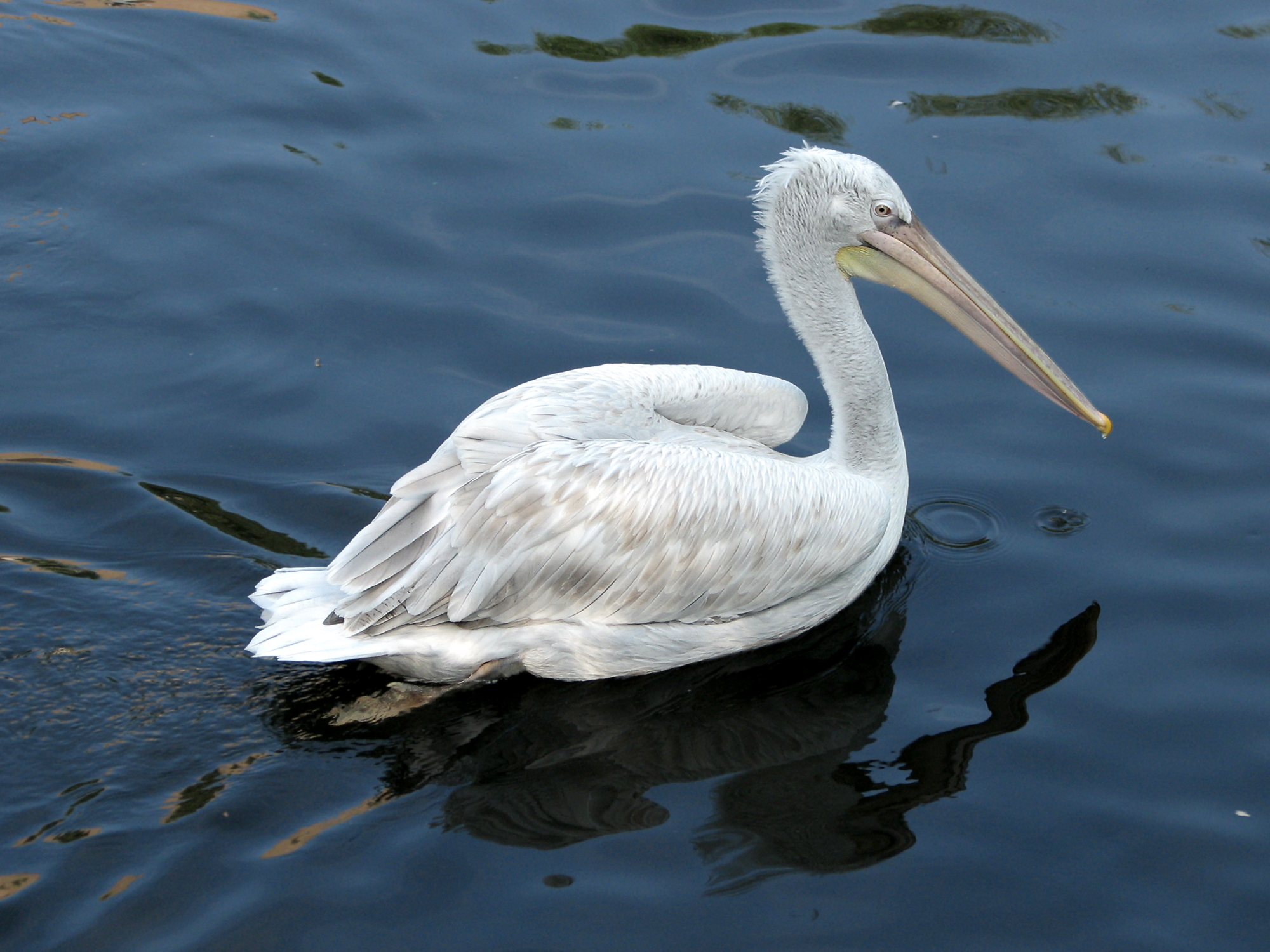 A curly pelican (Pelecanus crispus) is in the Moscow zoo.